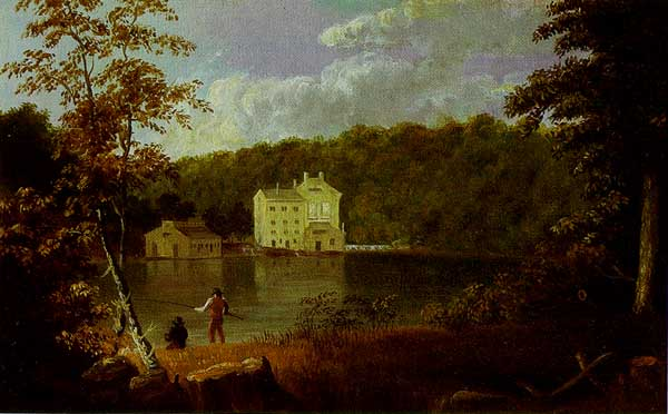 Painting attributed to Thomas Doughty